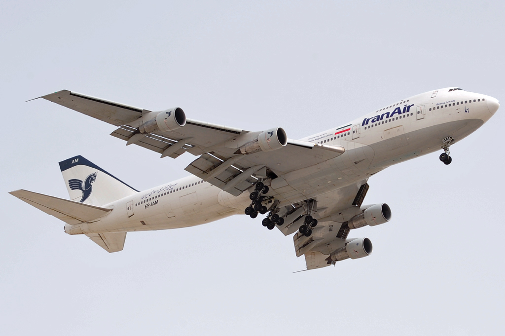 A grand old lady coming into land at Dubai. EP-IAM B747-168 at Dubai on March 24, 2012.